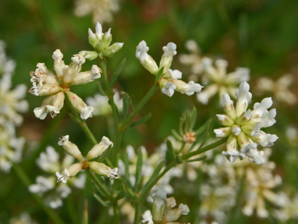 Dorycnium pentaphyllum